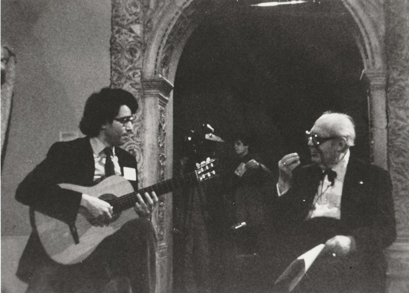 Michael Laucke With Andres Segovia At Met Museum, New York For PBS TV